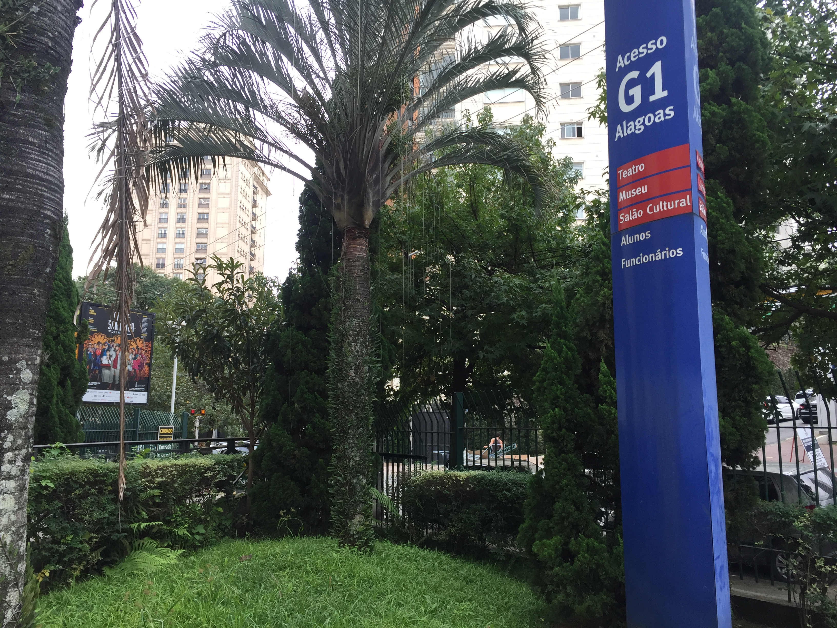 Placa informativa do museu